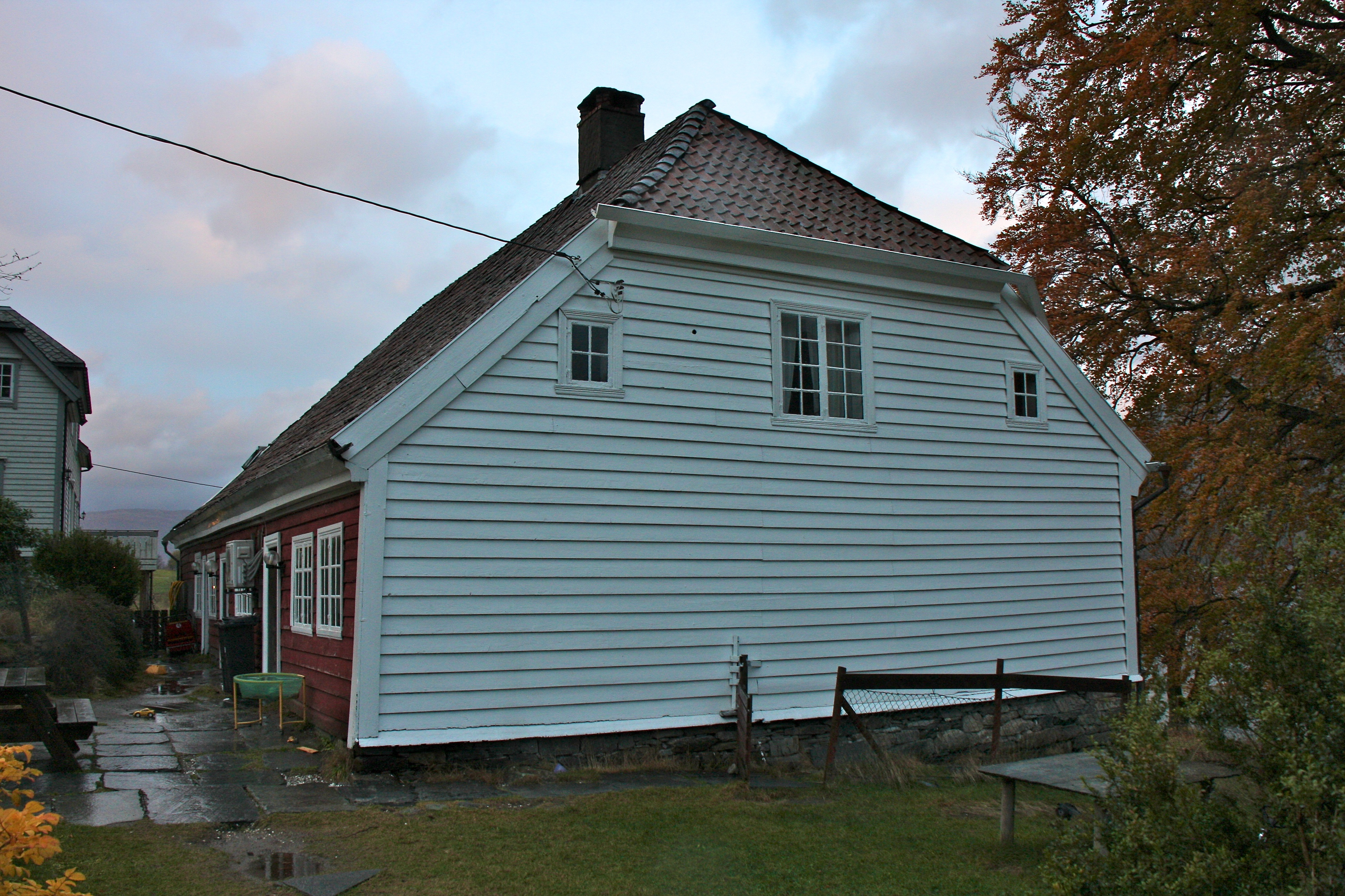 Lovisendal (Brekke) in Gulen municipality, Norway.